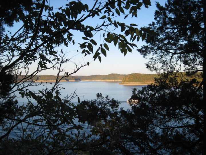 Picture of Lake Cumberland from the cottage walking trails.